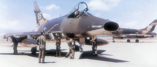 F-100Ds of the 309th Tactical Fighter Squadron / 31st Tactical Fighter Wing - Tuy Hoa Air Base, South Vietnam